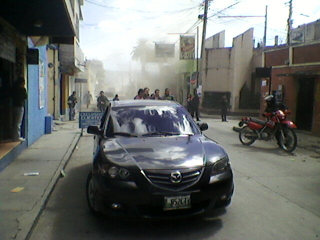 Damaged buildings in the city of San Marcos, Guatemala, a few seconds after the earthquake of 7 November 2012.